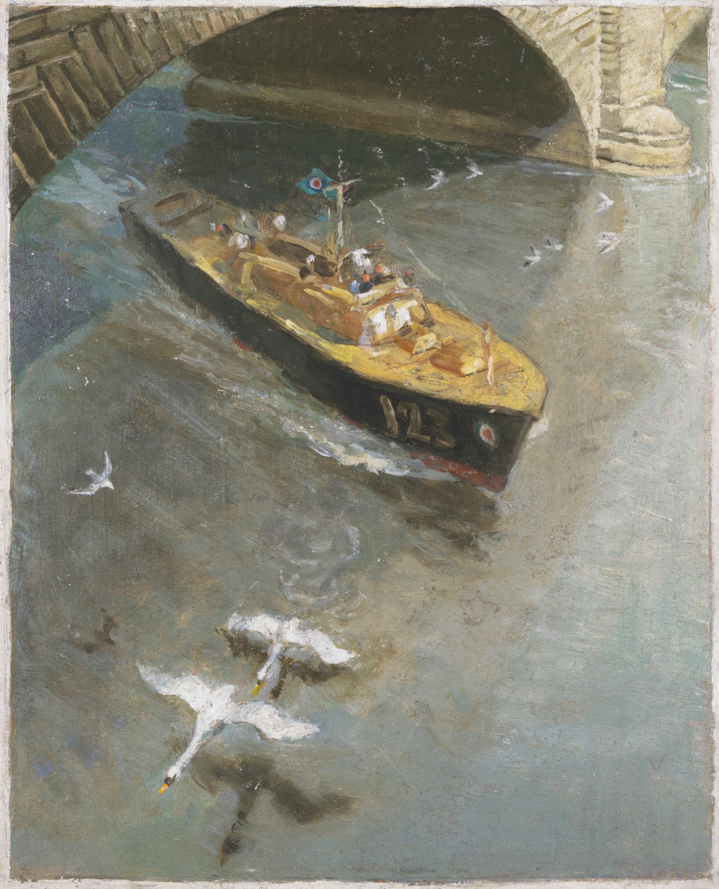 View looking down at a RAF rescue boat sailing from under a stone bridge, scattering swans and seagulls in front of it.